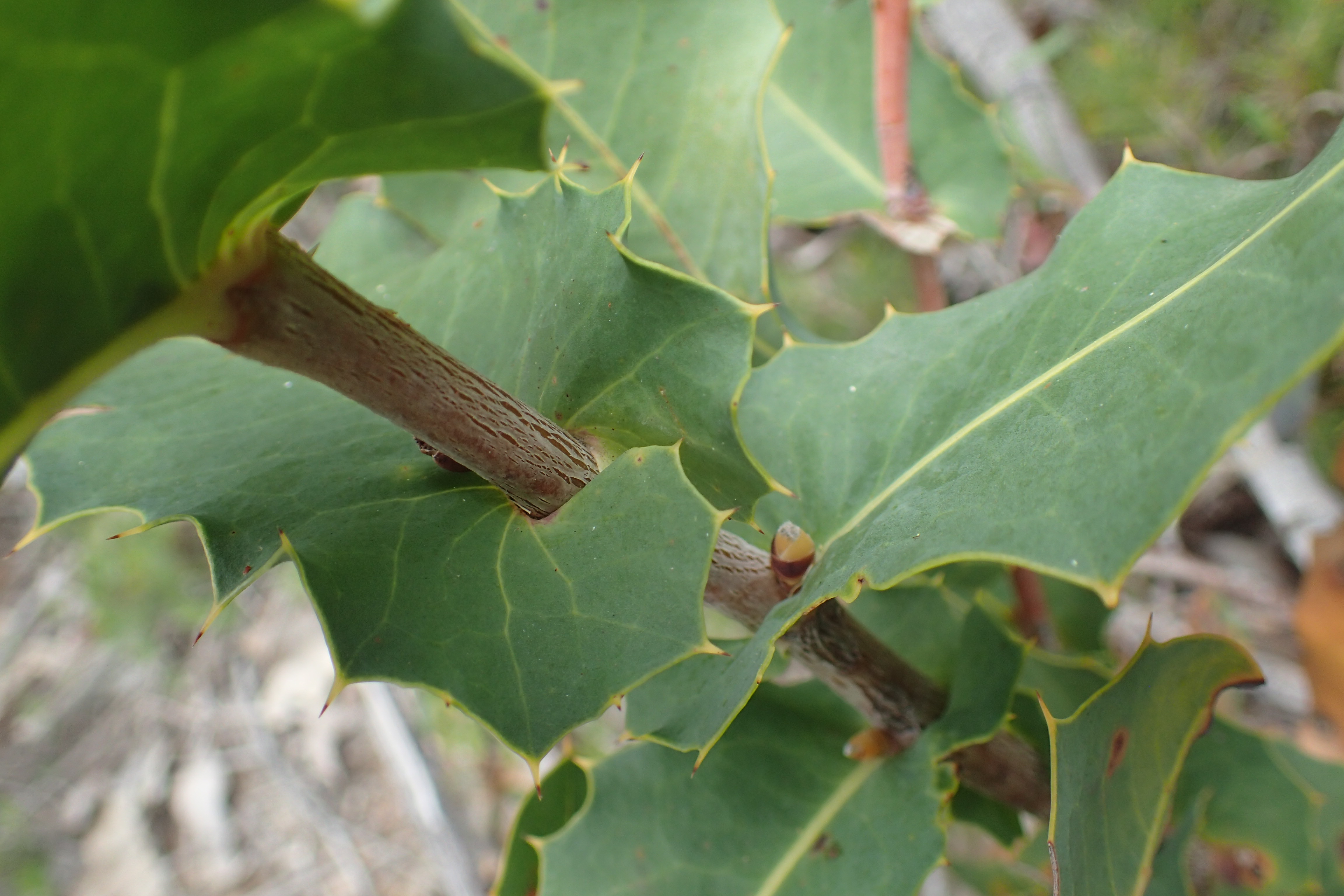 Amplexicaule leaf base of Hakea amplexicaulis